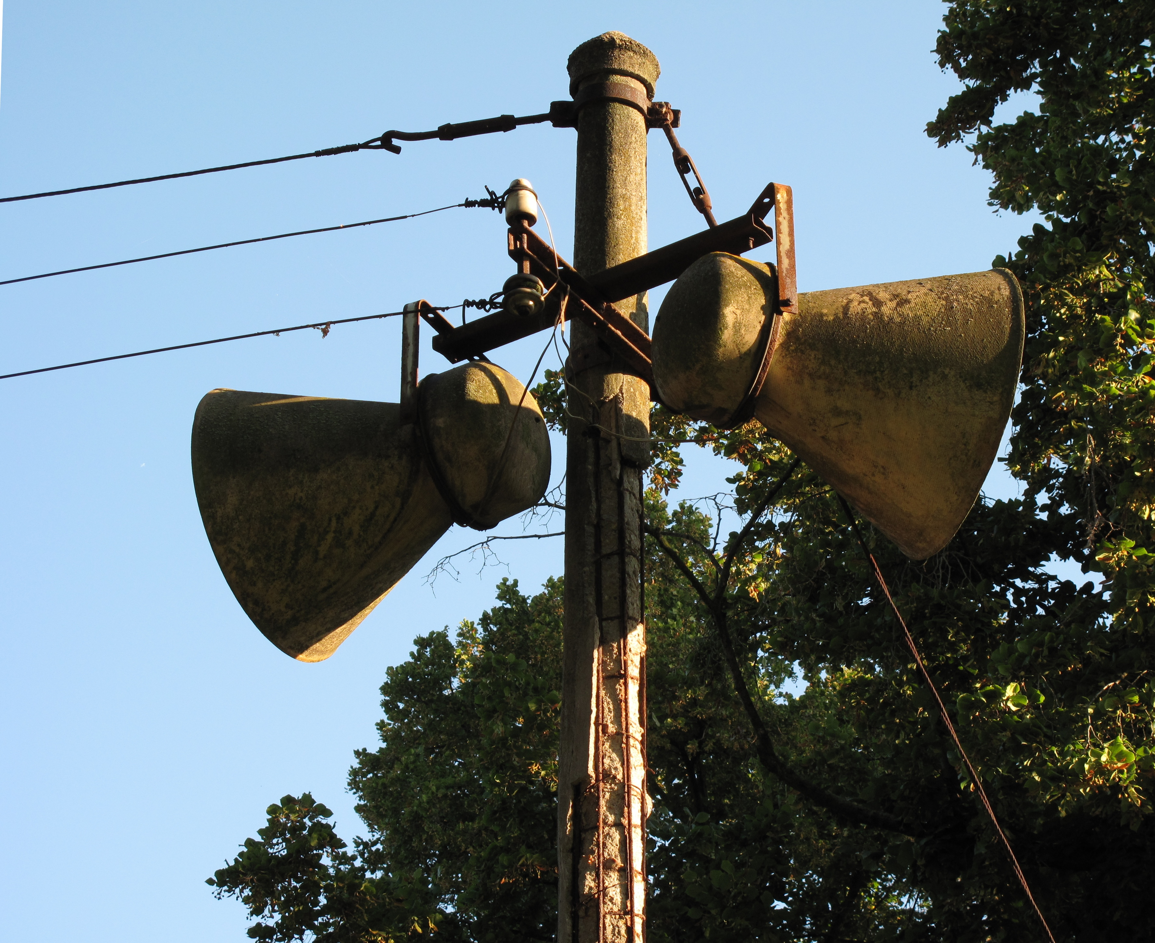 Horn loudspeakers in Lstiboř village, Kolín District, Czech Republic.